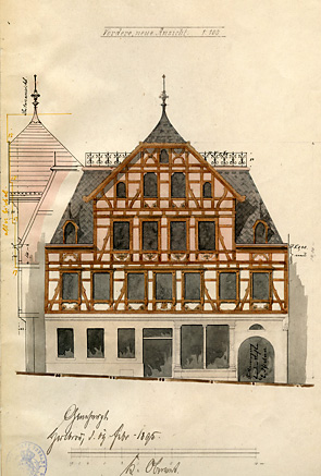 Heilbronn Fleiner Str. 9: Haus Stempelmüller Bauakte Aufriss 1895.jpg